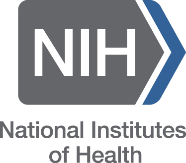 Logo for the National Institutes of Health